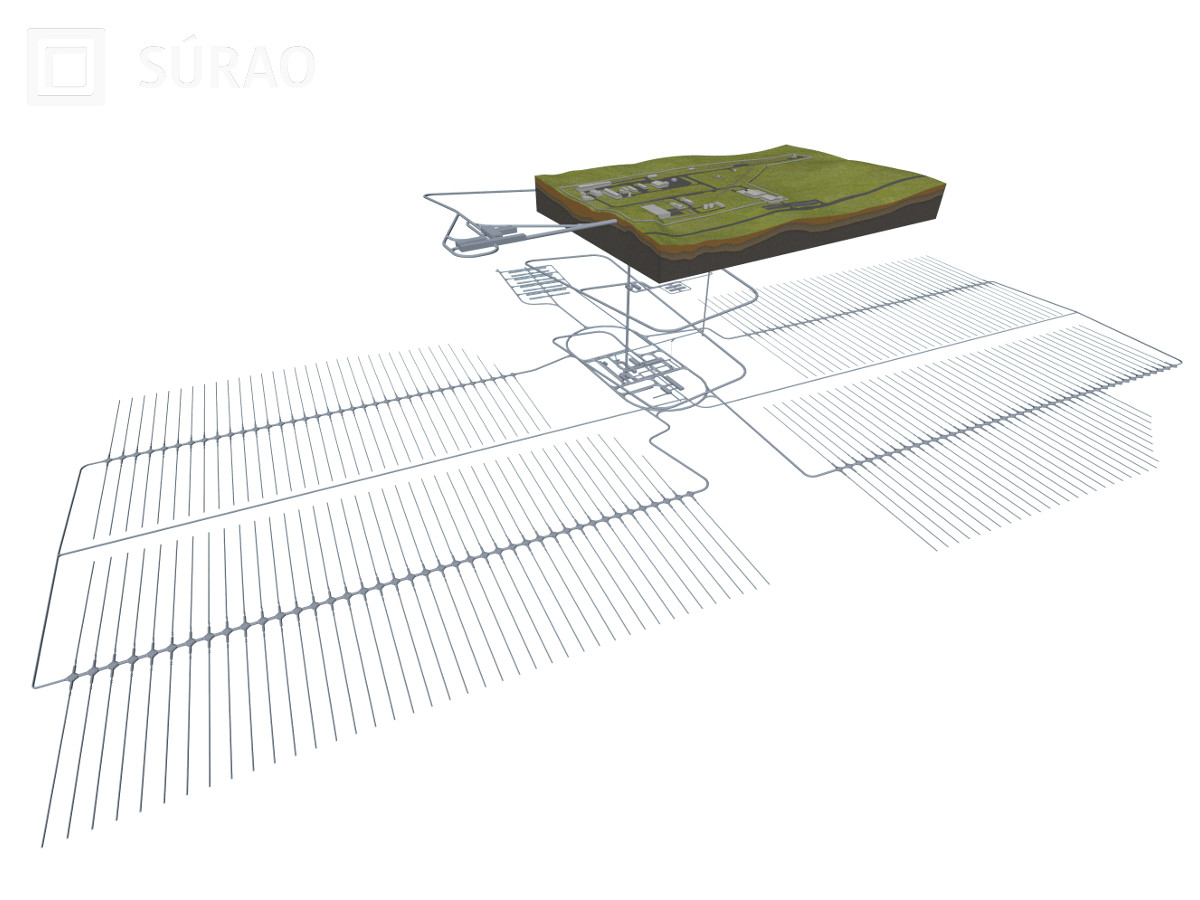 Deep geological repository model